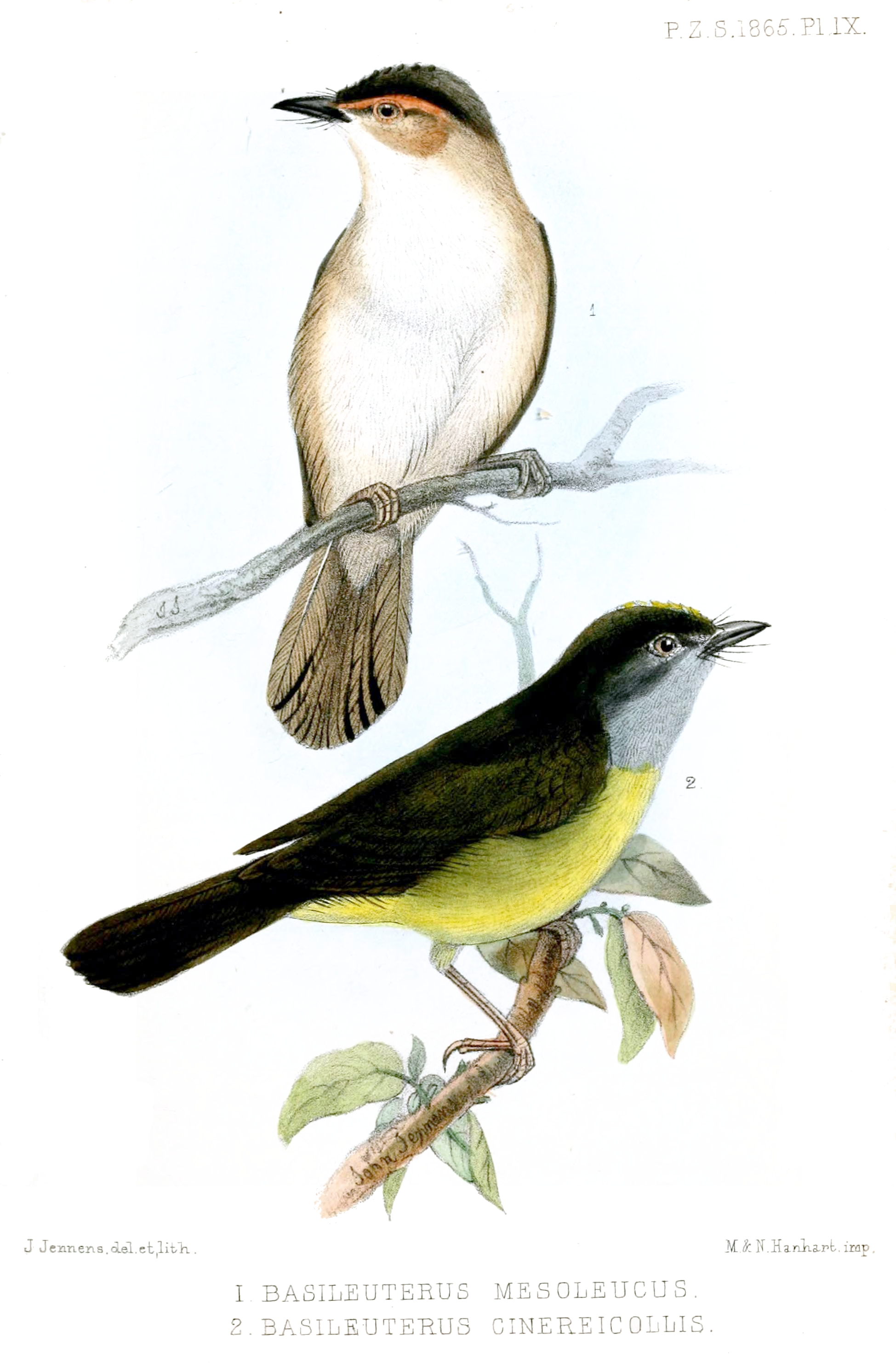 Basileuterus mesoleucus (=Phaeothlypis rivularis mesoleuca) & B. cinereicollis (=Myiothlypis cinereicollis)